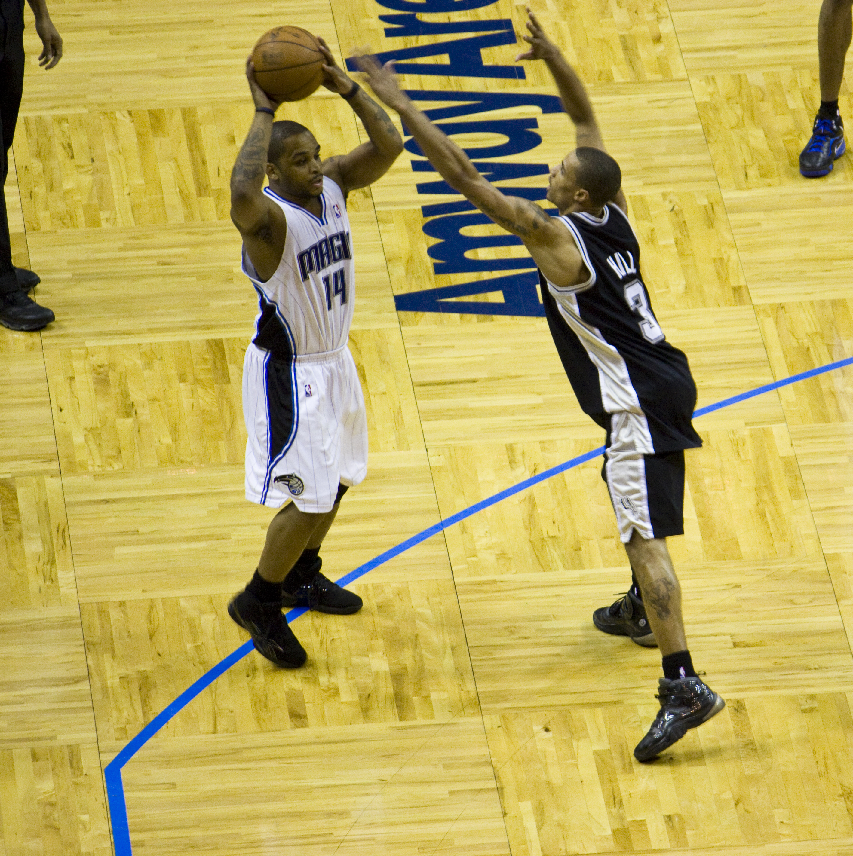 Jameer Nelson defended by George Hill.